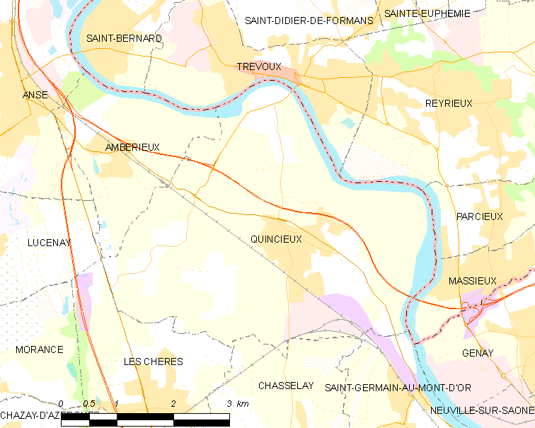 Map of French municipality